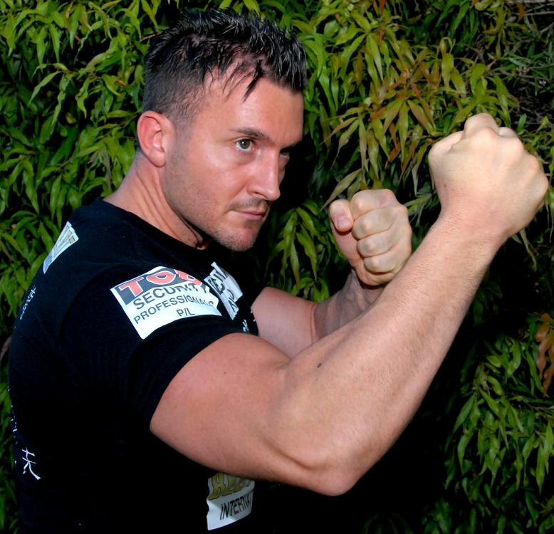 Master Robert Ardito Training for his 2009 Guinness World Record.